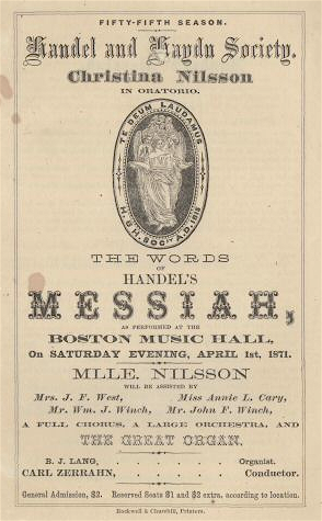 Fifty-fifth season. ... Boston Music Hall ... April 1st, 1871. ... Messiah. Handel and Haydn Society.